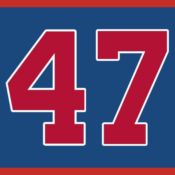 Illustration of Tom Glavine's Retired Braves Number